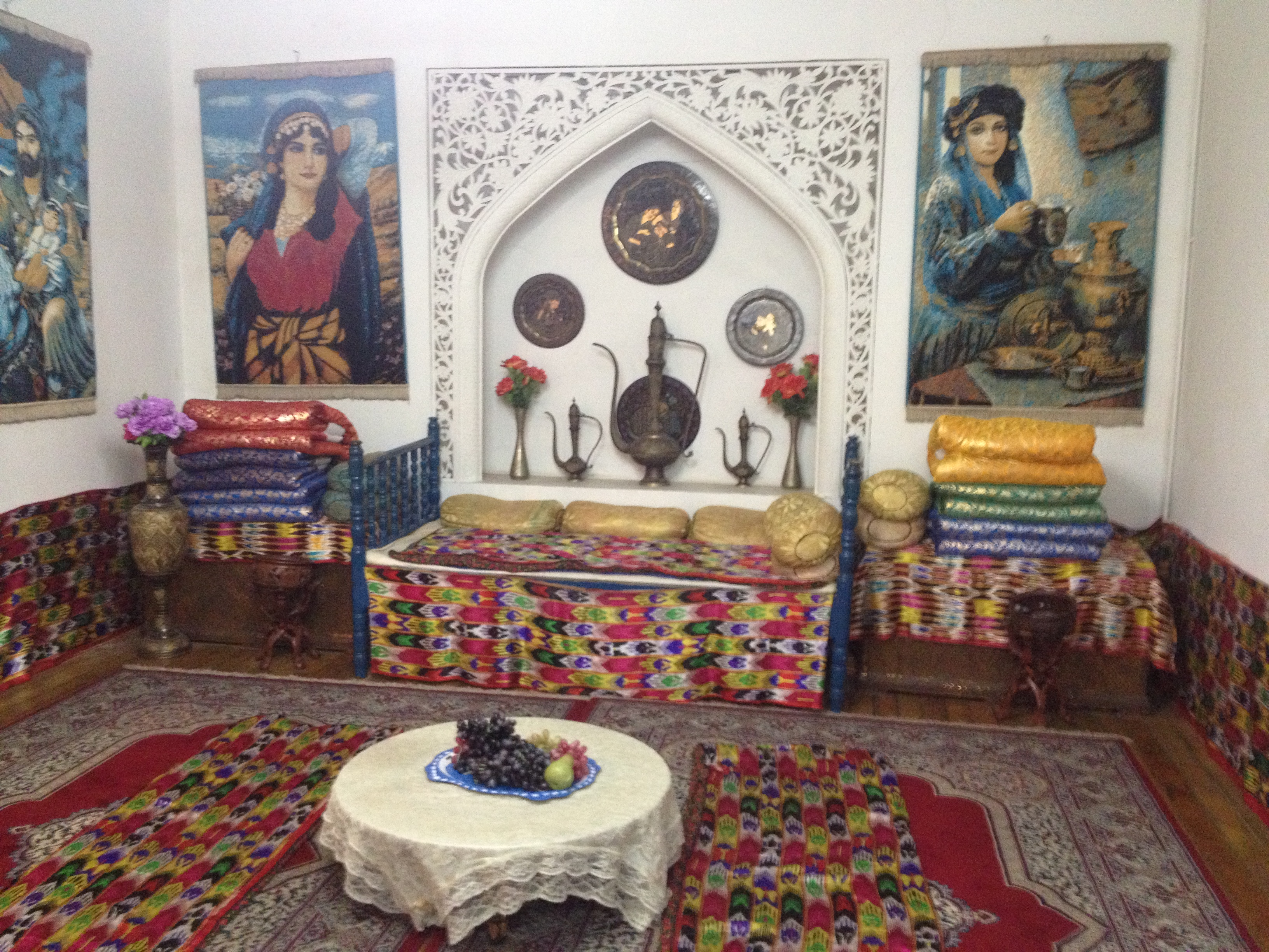 Inside the Uyghur House at Splendid China (Folk Culture Village) in Shenzhen-China.